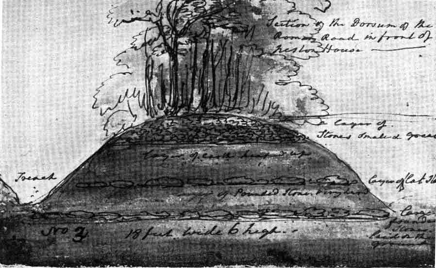 Scan of 1819 sketch from # Skinner, Rev. John (18-): Memoir on Camalodunum, chapter 3: Vallum of Ostorius, called the Wansdyke, pp. 138-153, Notes on Wansdyke reprinted in: Major and Burrow: The Mystery of Wansdyke (1926), pp. 180-182.* , as used at showing the Roman road from London to Bath at Neston Park